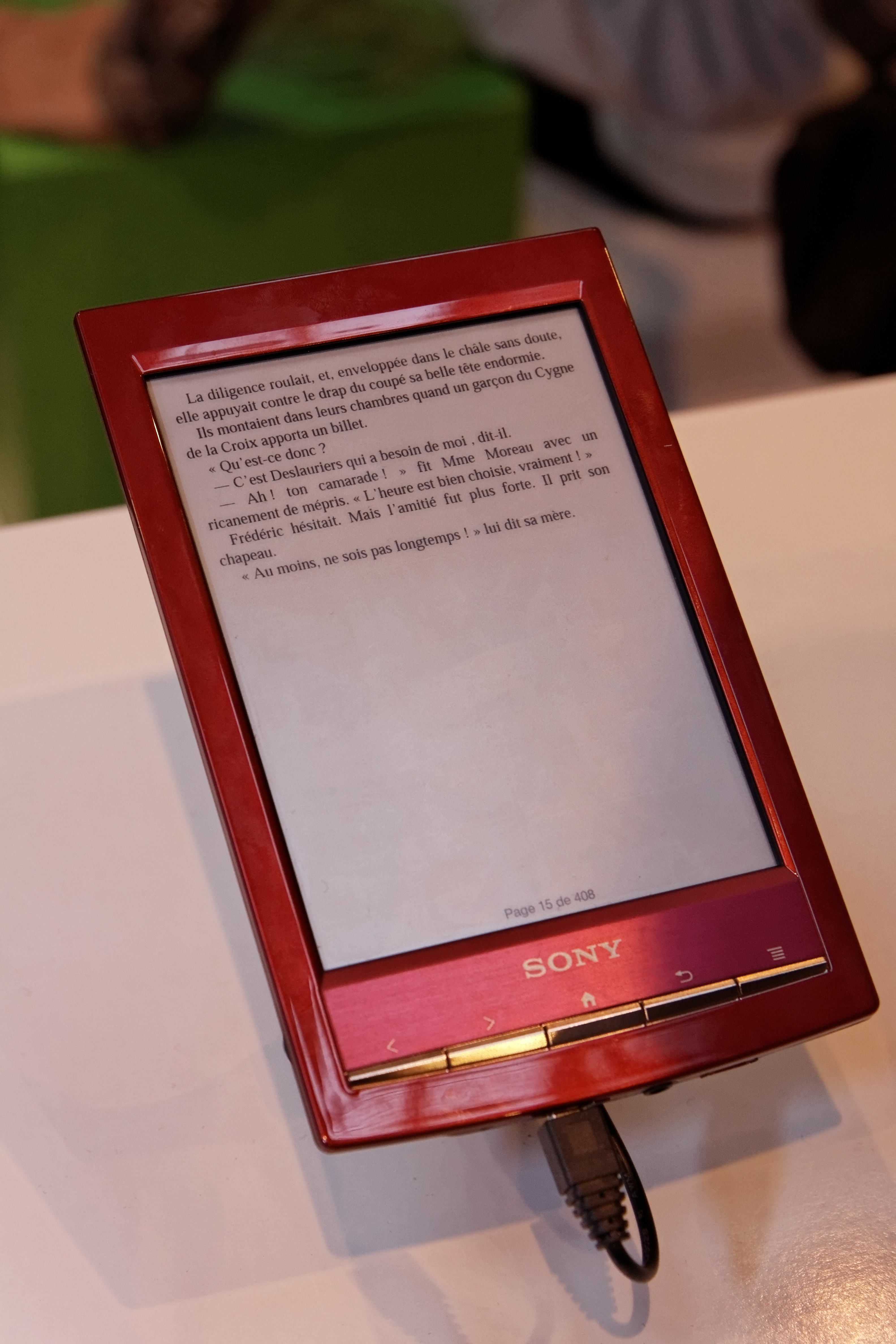 Liseuse Sony Touch Ereader Prs-T1 Wi-Fi Red.